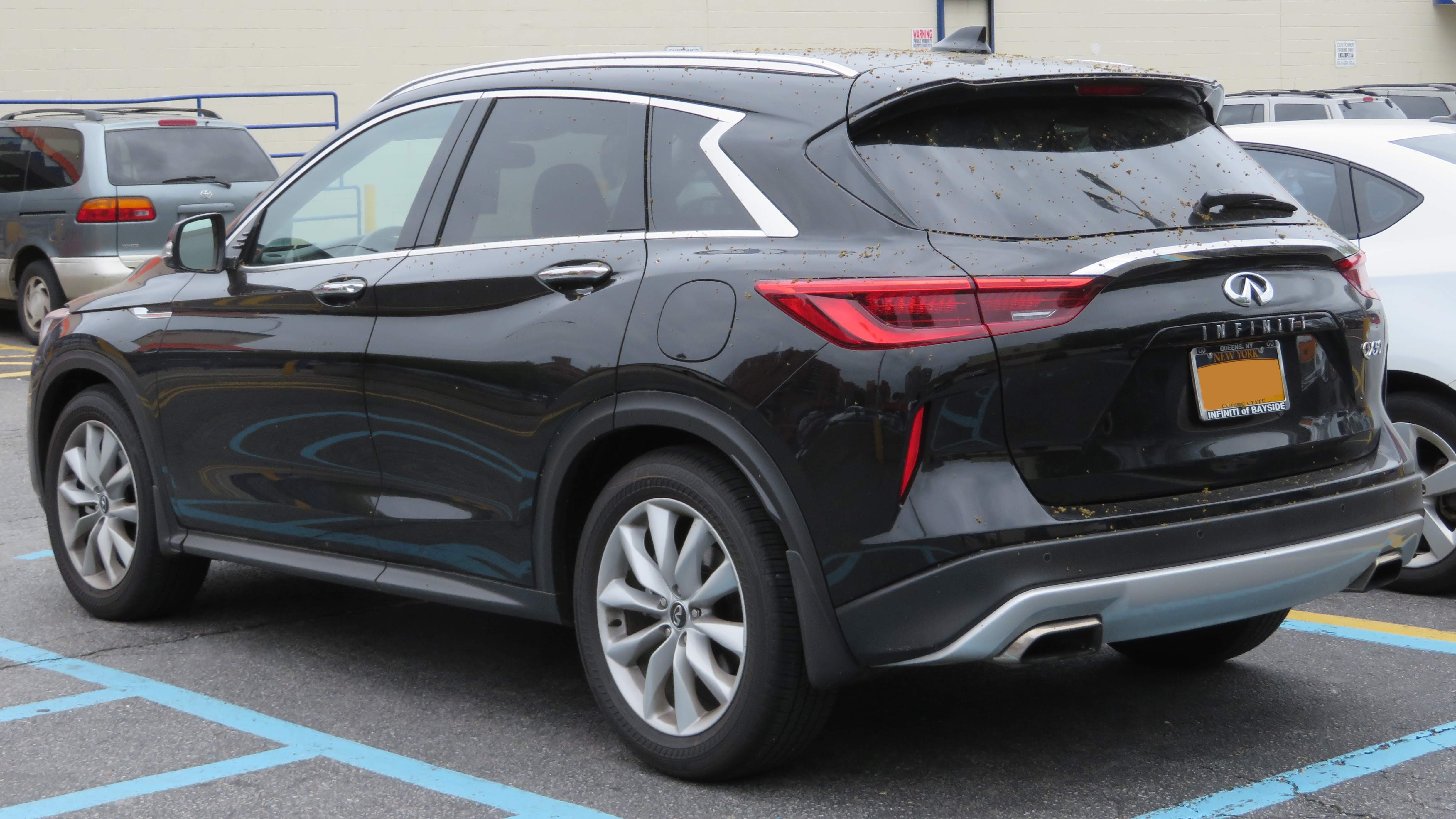 Spotted & photographed in Queens, New York